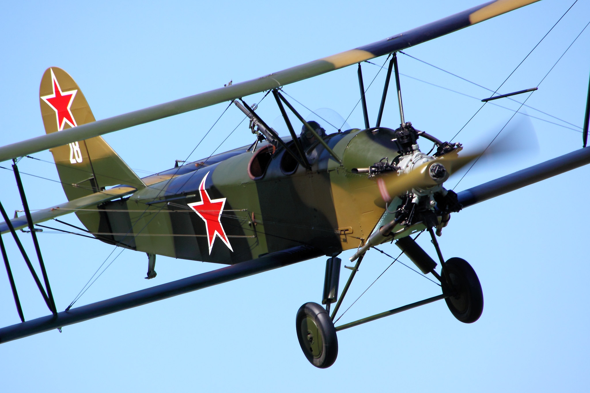 Polikarpov PO2 - Shuttleworth Military Pageant June 2013